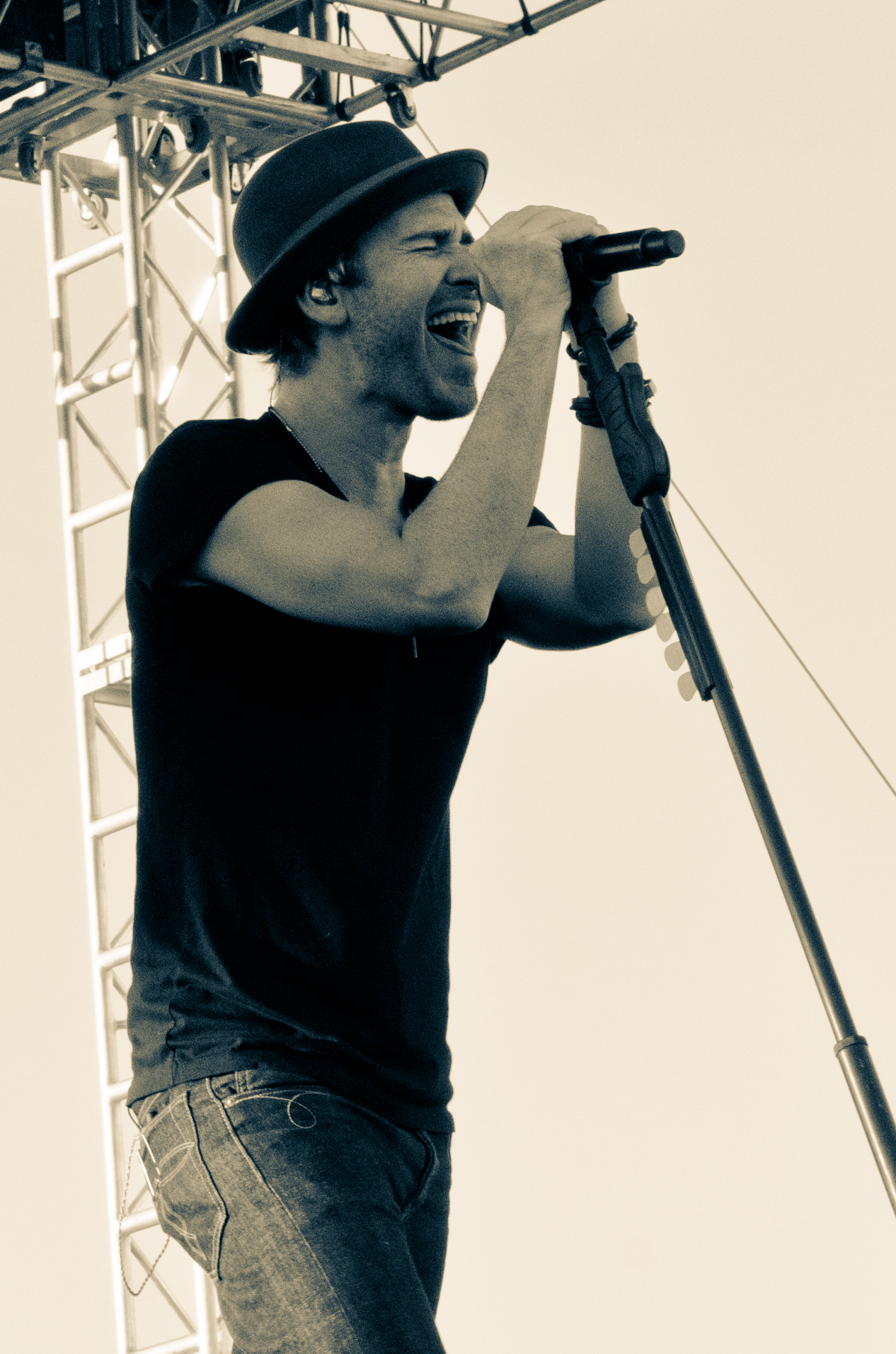 Jason Wade performing with Lifehouse in Norfolk, Nebraska in 2013